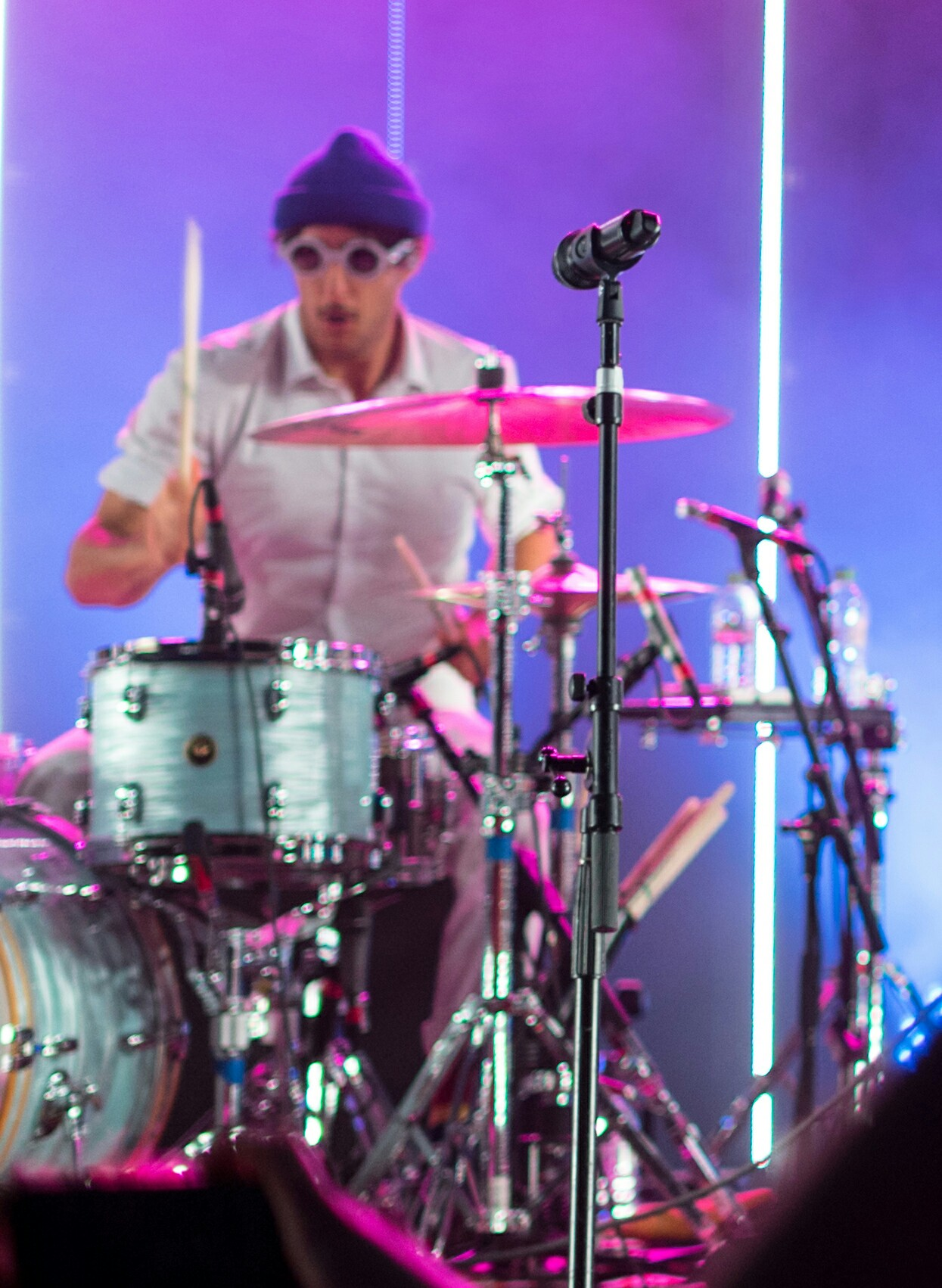 Zac Farro.